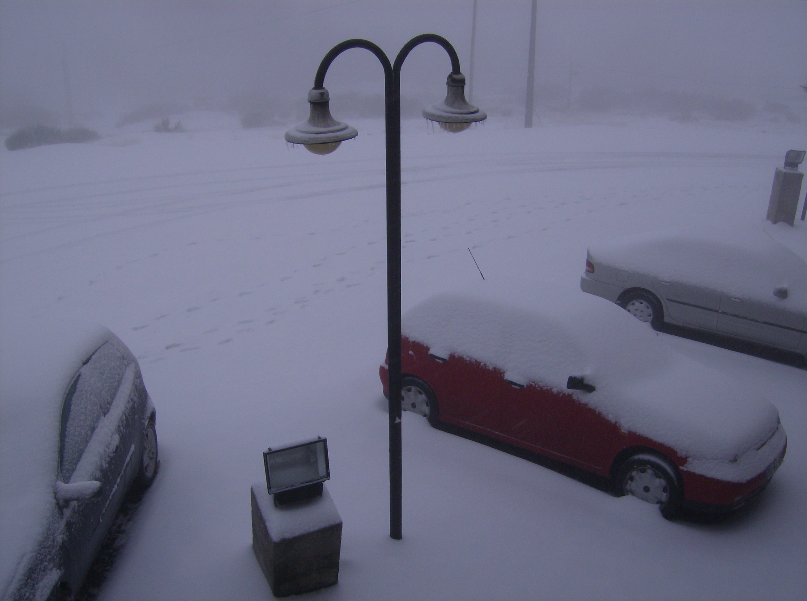 Blizzard in Penhas da Saúde, municipality of Covilhã, in a mountain range named Serra da Estrela, Portugal